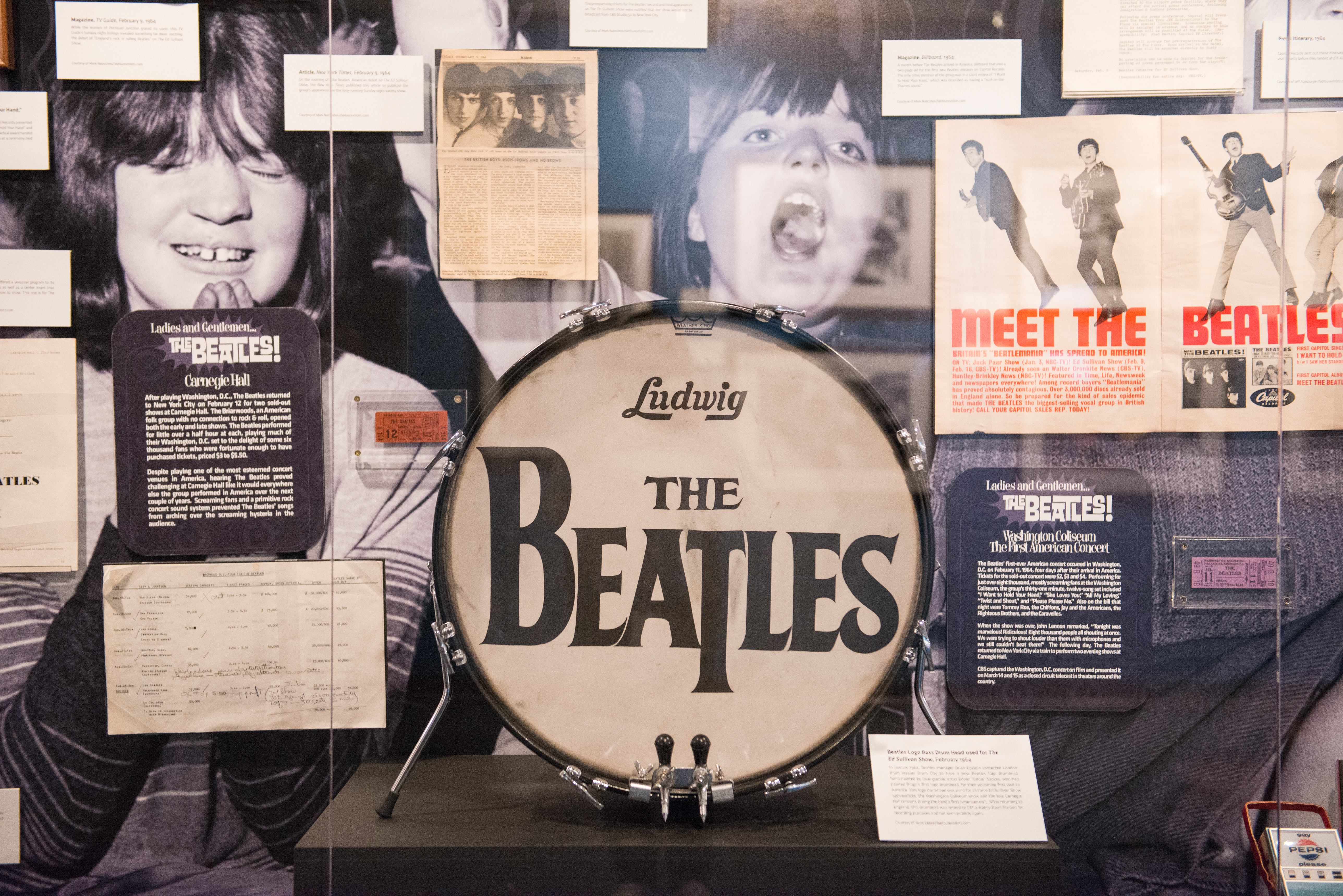 "Ladies and Gentlemen...The Beatles!", a traveling exhibit curated by the GRAMMY Museum® and Fab Four Exhibits, is open at the LBJ Presidential Library from June 13, 2015 through January 10, 2016. More than 400 pieces of memorabilia, records, rare photographs, tour artifacts, video, and instruments are on display, including John Lennon's missing Gibson J-160E guitar. The guitar is on display for two weeks only, from June 13 until June 29, 2015. Photo by Lauren Gerson. Flickr album "Exhibit: "Ladies and Gentlemen... the Beatles!"" by LBJ Foundation " "Ladies and Gentlemen…The Beatles!" is a traveling exhibit curated by the GRAMMY Museum® and Fab Four Exhibits that explores the impact The Beatles' arrival had on American pop culture, including fashion, art, advertising, media and music, from early 1964 through mid-1966 – when the British boy band was at its peak.On display will be more than 400 pieces of memorabilia, records, rare photographs, tour artifacts, video, and instruments from private collectors and the GRAMMY Museum, including the original Ludwig drum head Ringo played on "The Ed Sullivan Show." It even includes an oral history booth where visitors can leave their own impressions of the timeless group.Photos by Lauren Gerson. "